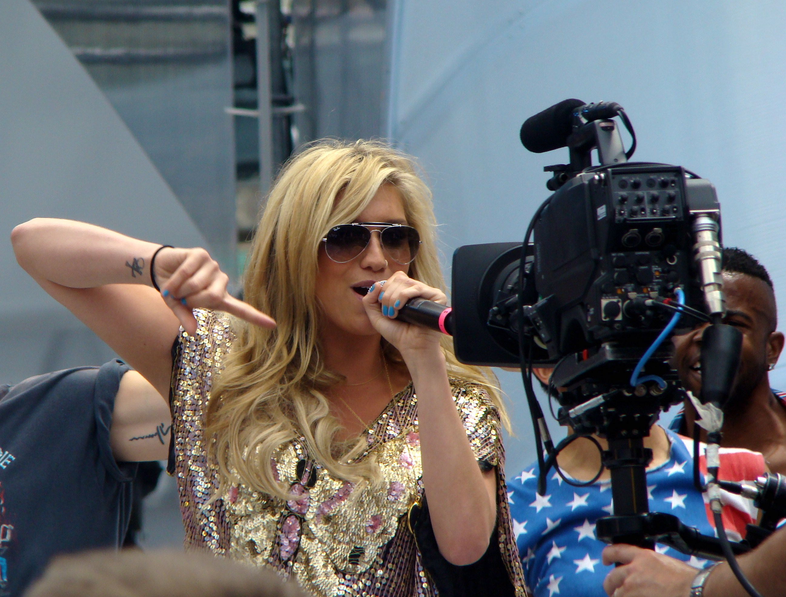 Much Music Video Awards Soundcheck